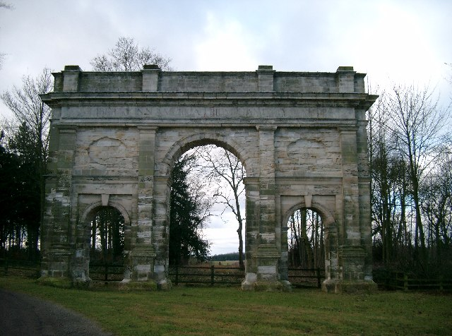 The Triumphal Arch. A closer view of the Triumphal Arch on the Parlington Estate